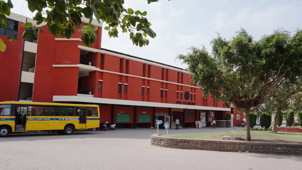 This is Administrative building of IPS Academy